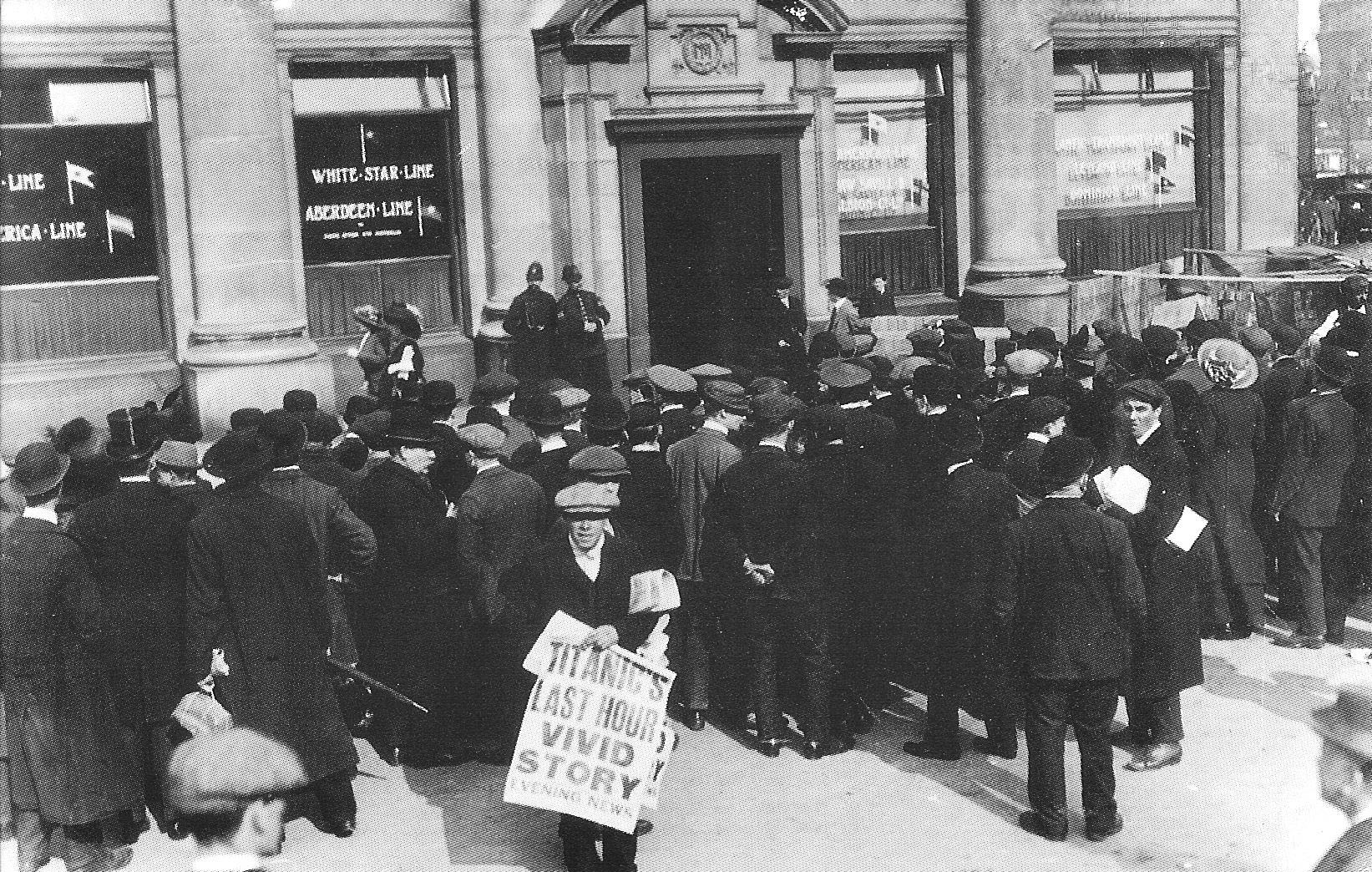 Crowds gather outside Oceanic House, the London offices of the White Star Line. The White Star ship Titanic sank on 15th April 1912 after hitting an iceberg on its maiden voyage.